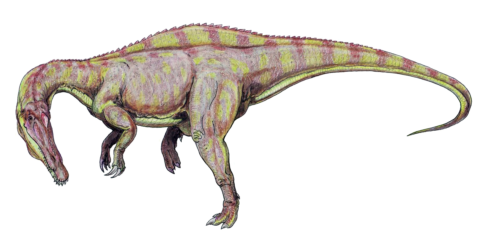 Suchomimus tenerensis was a large spinosaurid dinosaur from Africa in the middle Cretaceous period, 120 to 110 million years ago.